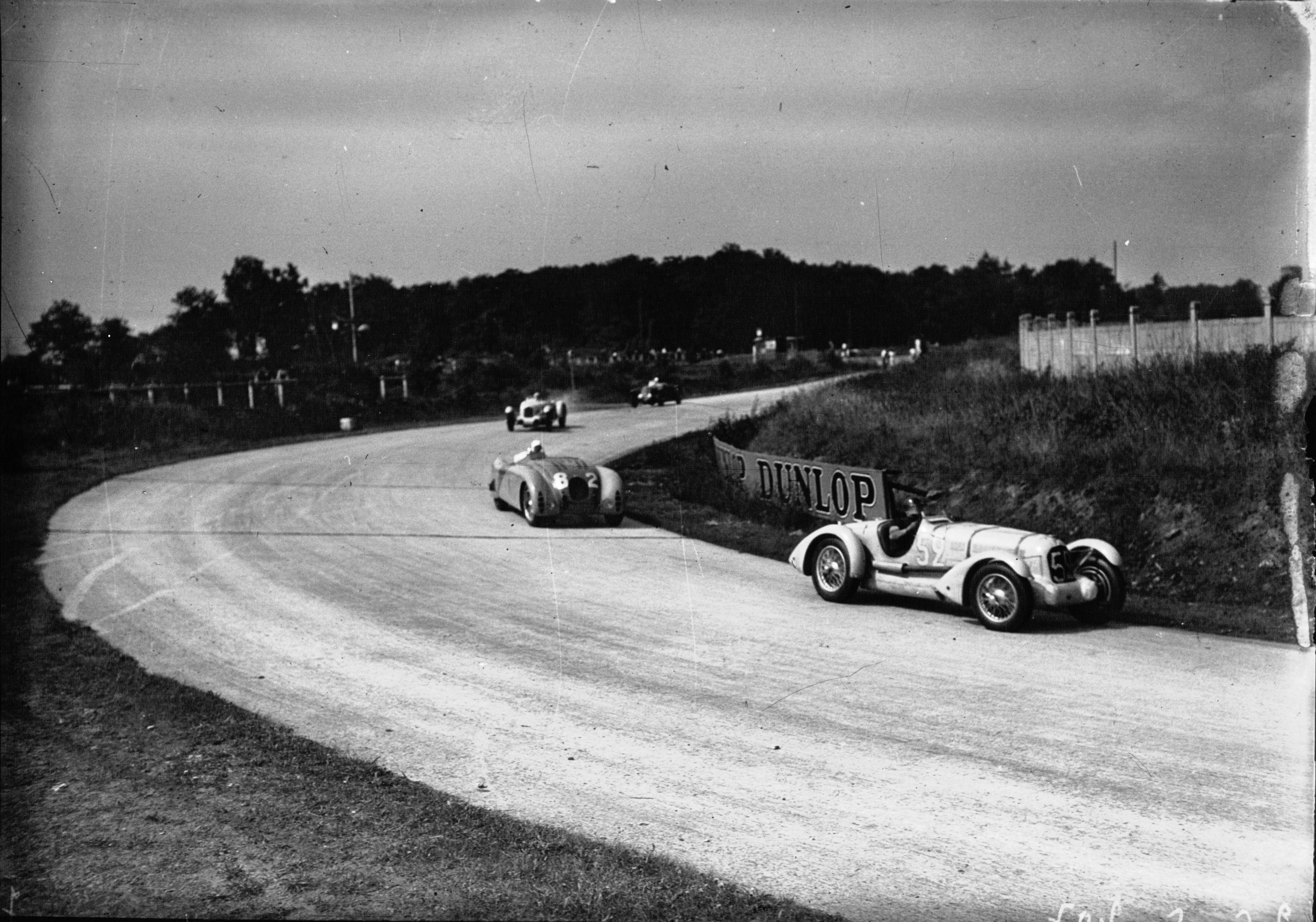 1936 French Grand Prix race